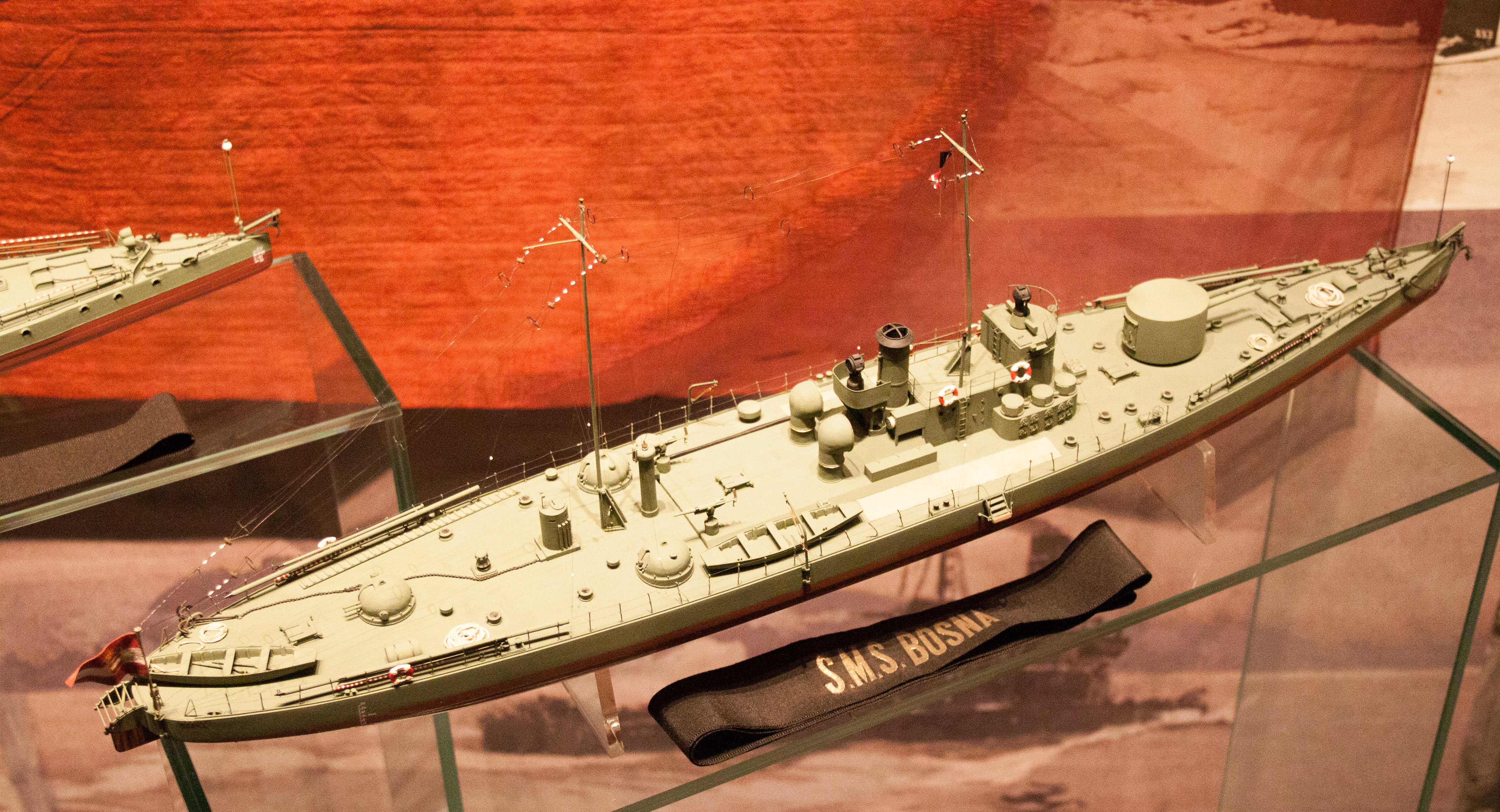 Austro-Hungarian Danube monitor Bosna, 1:33 scale model, Heeresgeschichtliches Museum Wien.